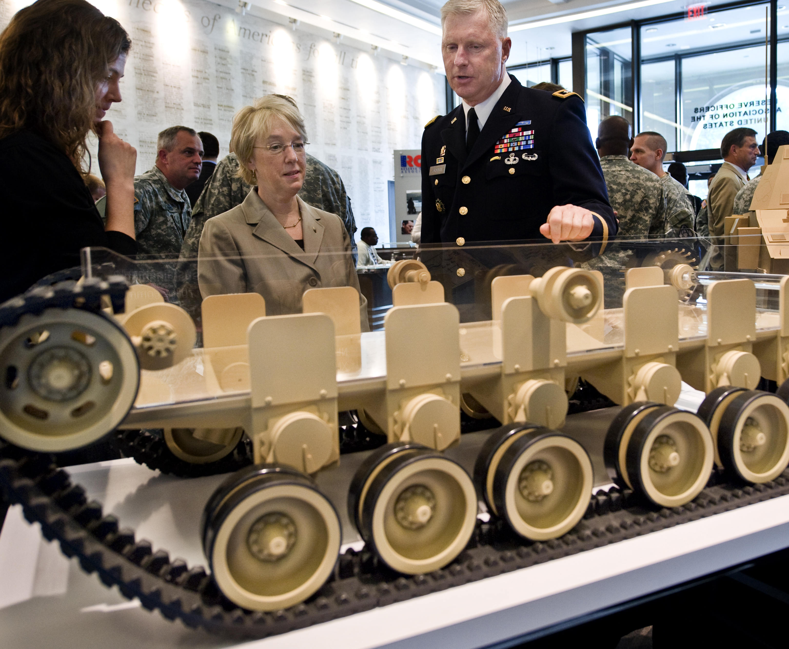 U.S. Army Maj. Gen. Galen Jackman briefs Senator Patty Murray, D-Washington, on specifics involved in the Army's Future Combat Systems Manned Ground Vehicle program during a Army birthday celebration on Capitol Hill in Washington D.C., June 10, 2008.